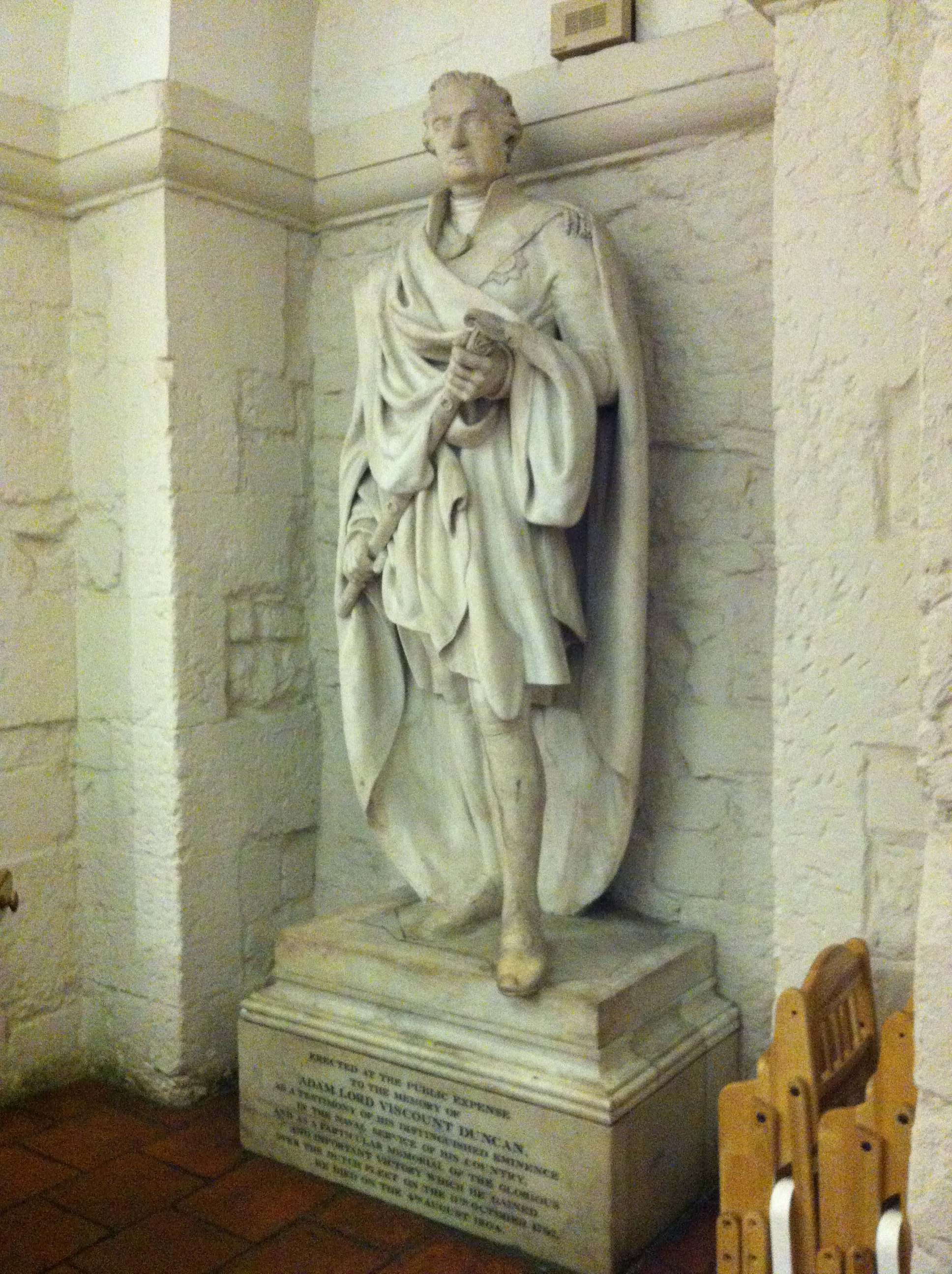 Adam Duncan by Westmacott in the crypt of St. Paul's Cathedral